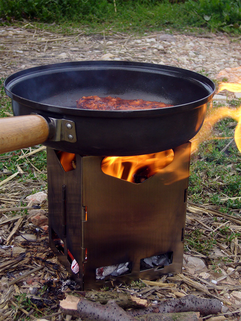 Collapsible "hobo-style" wood stove "Magic Flame" manufactured by Künzi, Switzerland.